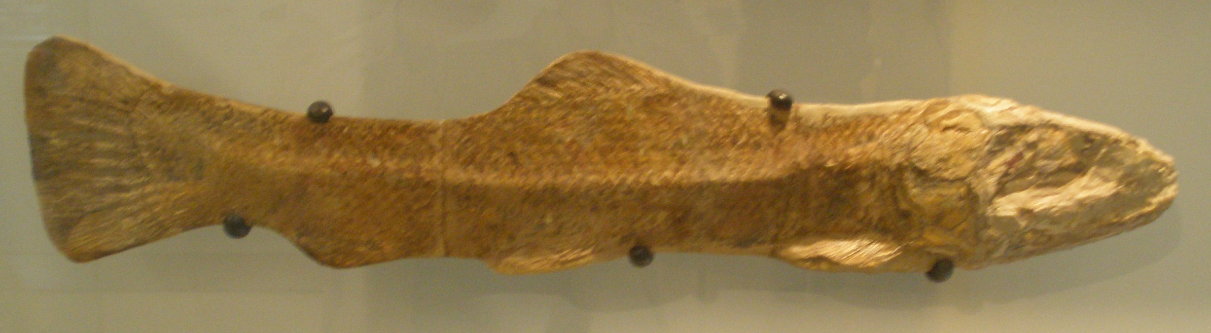 Skeleton of Calamopleurus cylindricus, a fossil fish